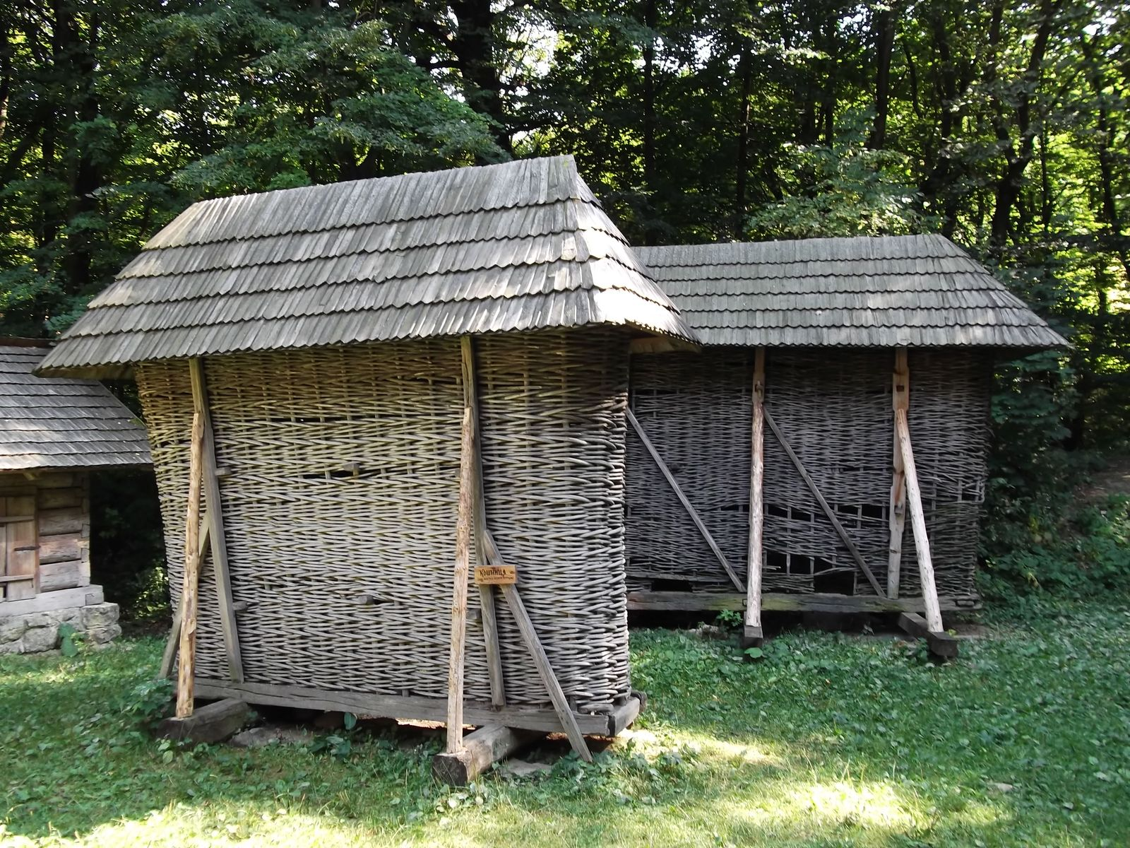 Museum of Folk Architecture and Life